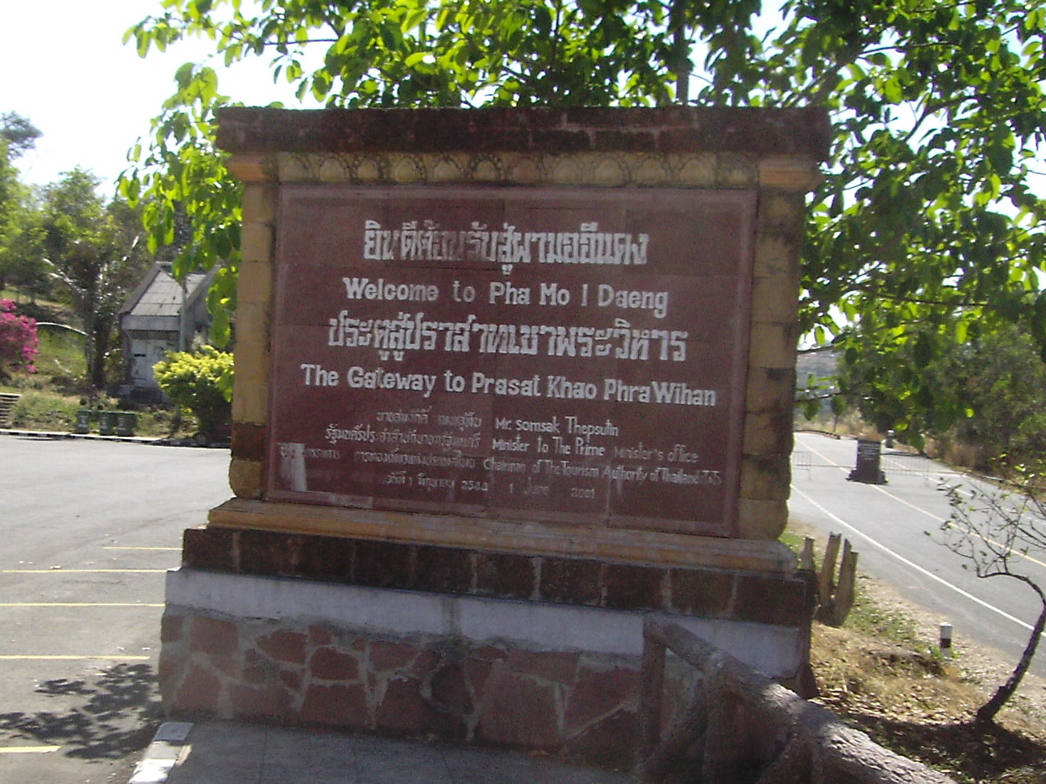 Parking lot Welcome to Pha Mo I Daeng, gateway to Prasat Khao Phra Wihan, dedicated 1 June 2001 by Chairman of Tourism Authority of Thailand